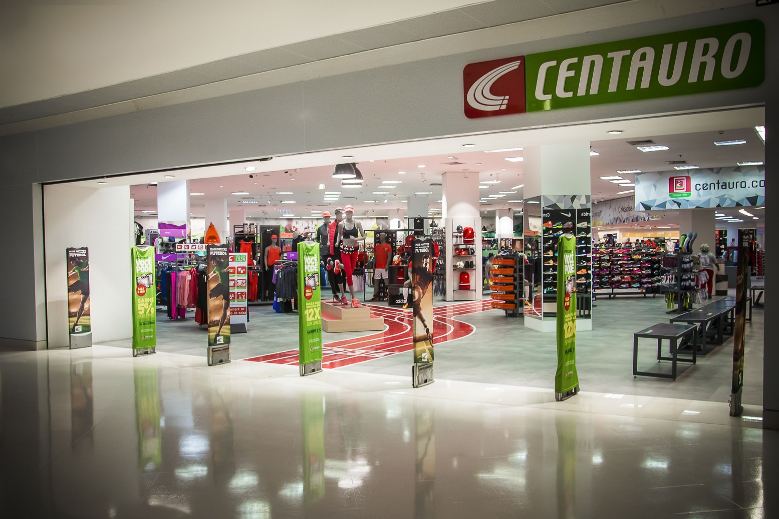 Centauro Store